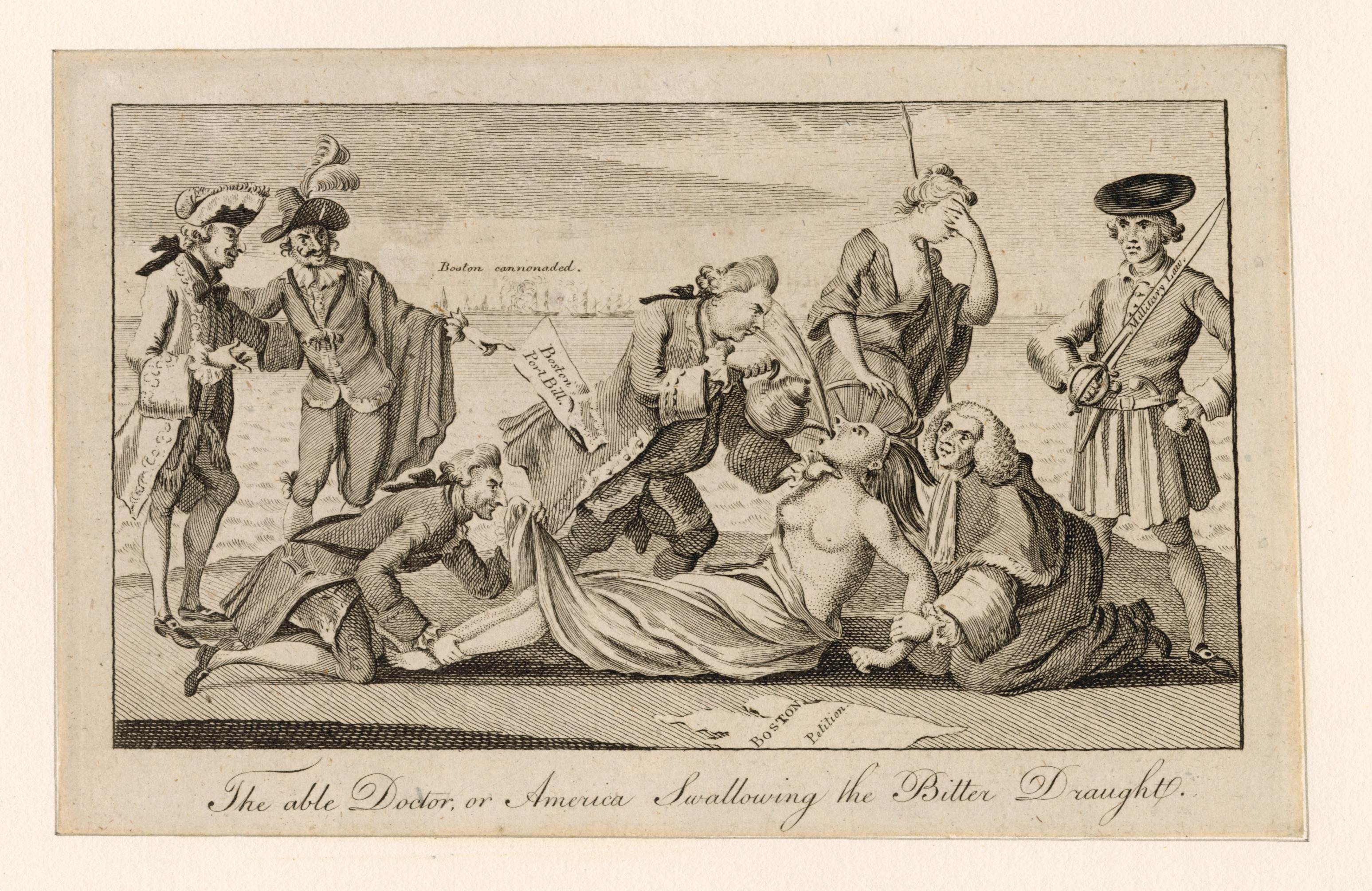 EM1970